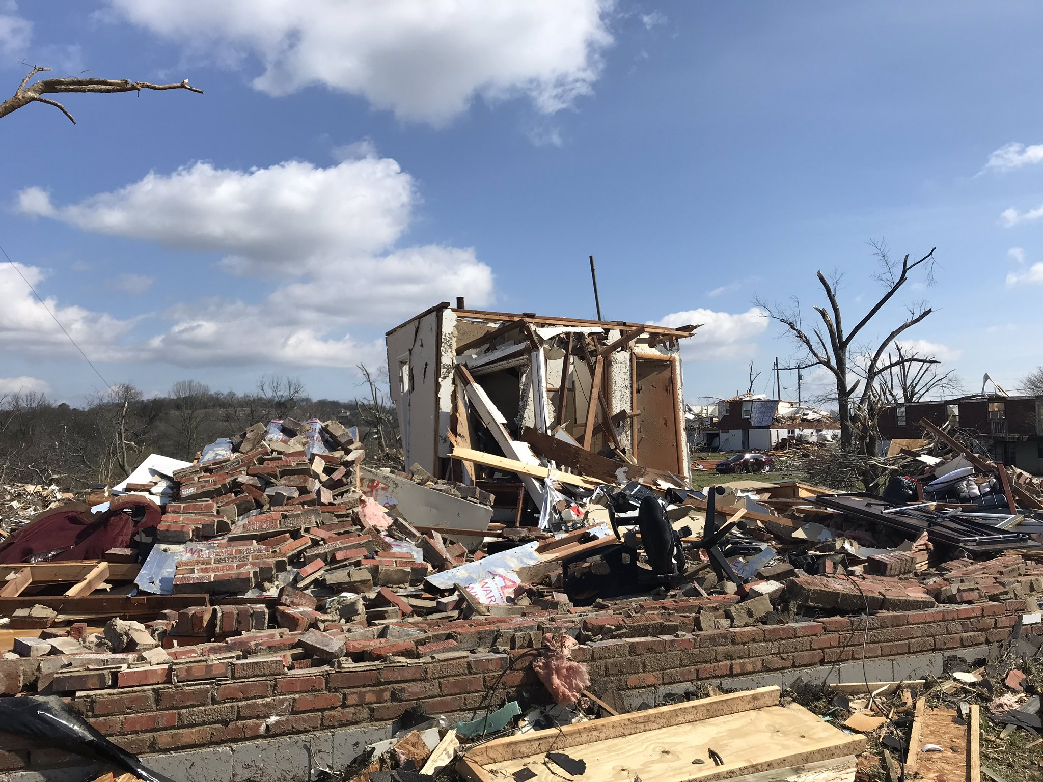 EF3 damage in Nashville, Tennessee, from a violent tornado that impacted the region during the pre-dawn hours of March 3, 2020. Photo taken as part of a damage survey.